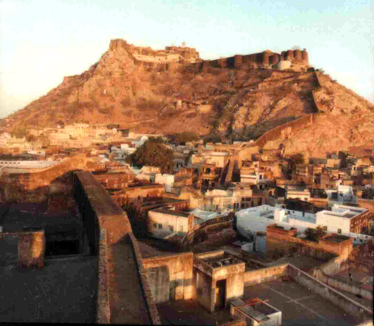 sourabh dadhich